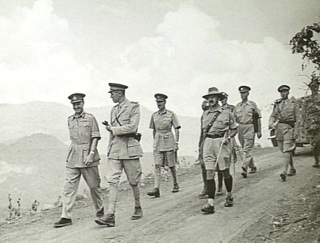 Surrender of the Duke of Aosta at Amba Alagi